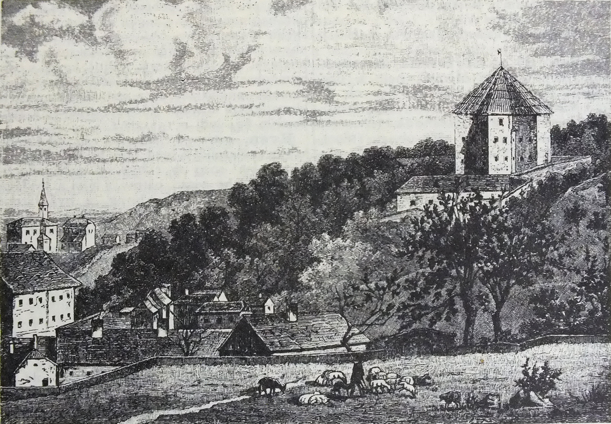 The Star Royal Summer Palace (královský letohrádek Hvězda) in Prague.